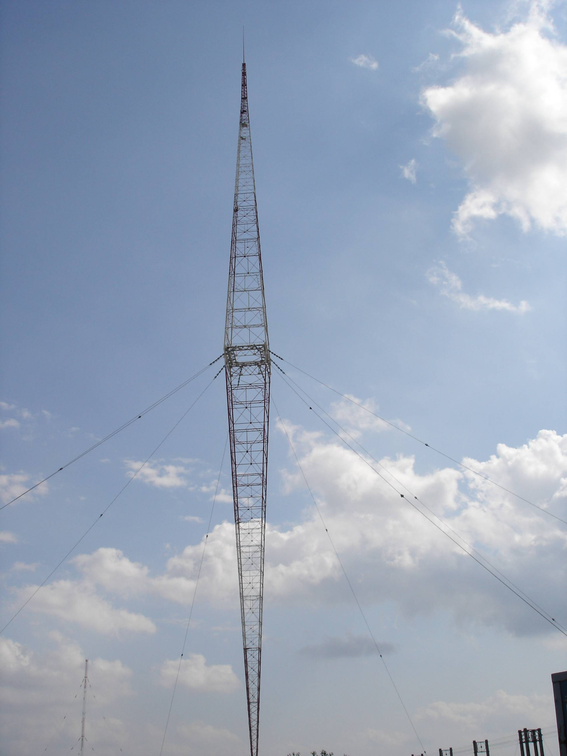 Lakihegy Tower, a 314 meters (1,030 ft) radio mast at Szigetszentmiklós-Lakihegy in Hungary built in 1933. It is a type called a diamond cantilever or Blaw-Knox tower. It transmitted as the radio station Budapest 1 until 1977.